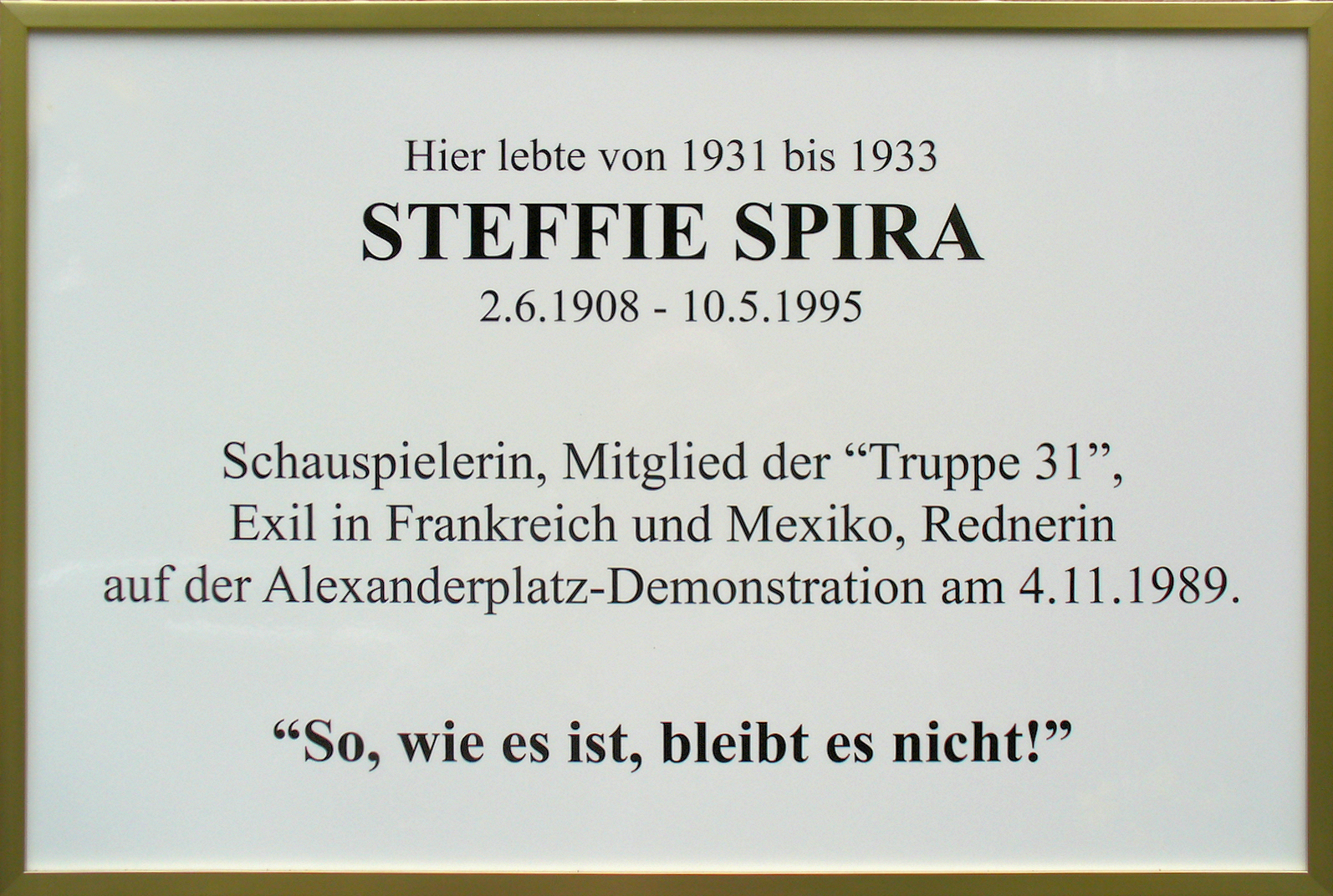 Memorial plaque, Steffie Spira, Bonner Straße 9, Berlin-Wilmersdorf, Germany